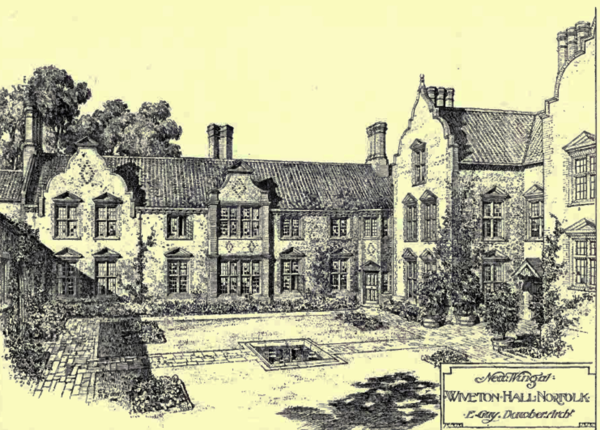 Architectural drawing of extensions to Wiveton Hall, Norfolk, 1908